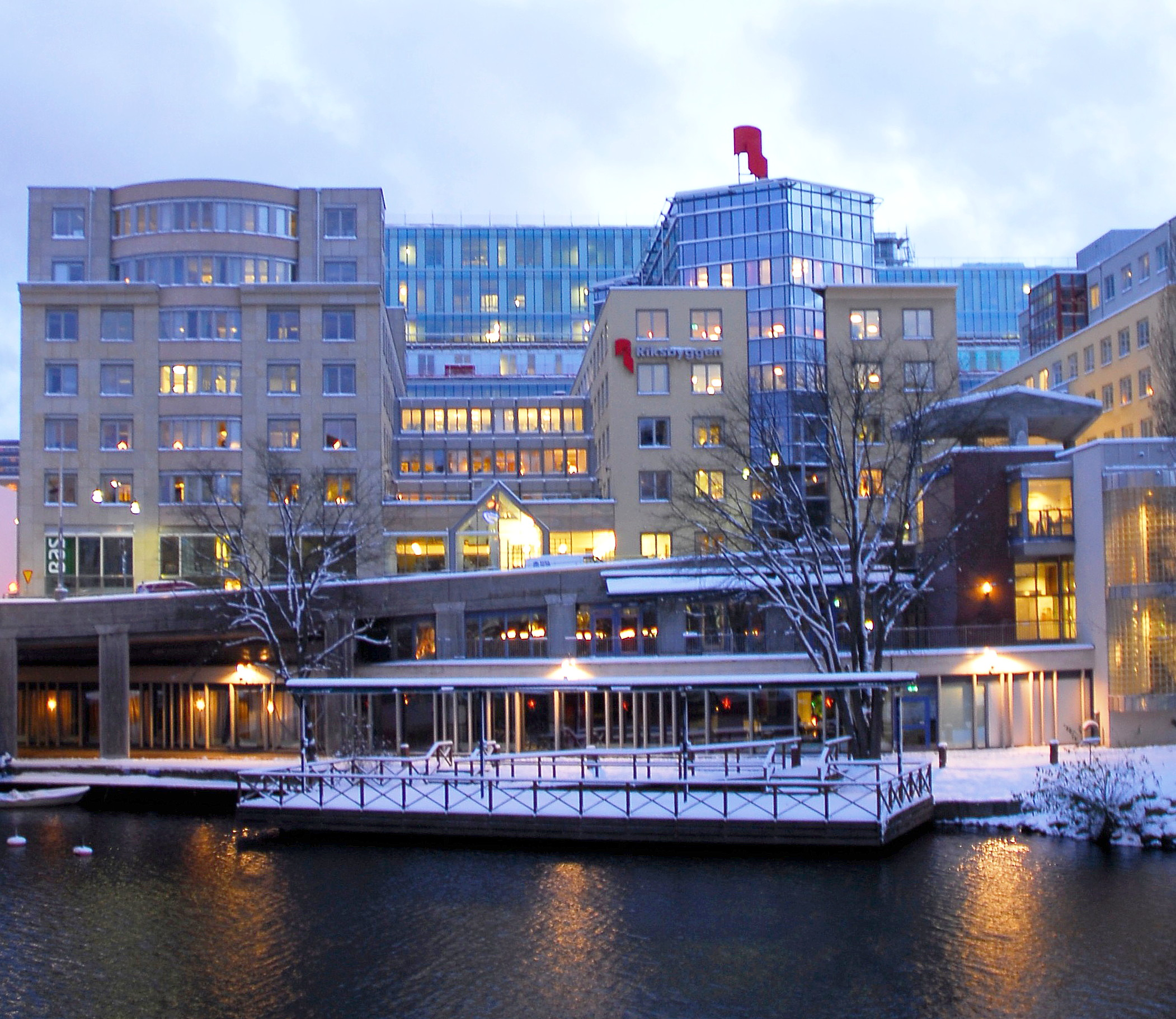 Image of kungsbron 21 Stockholm